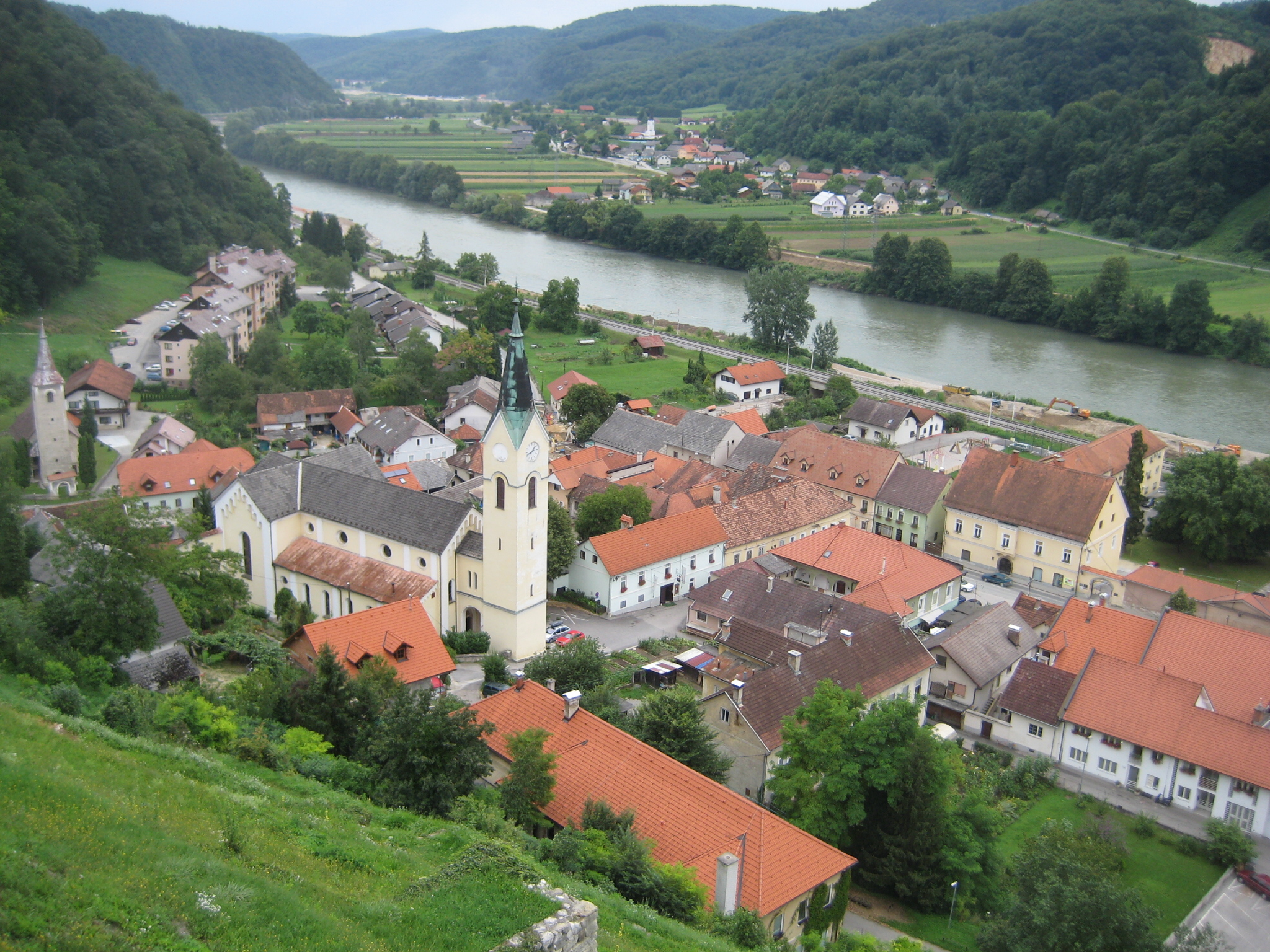 Sevnica, town in Slovenia